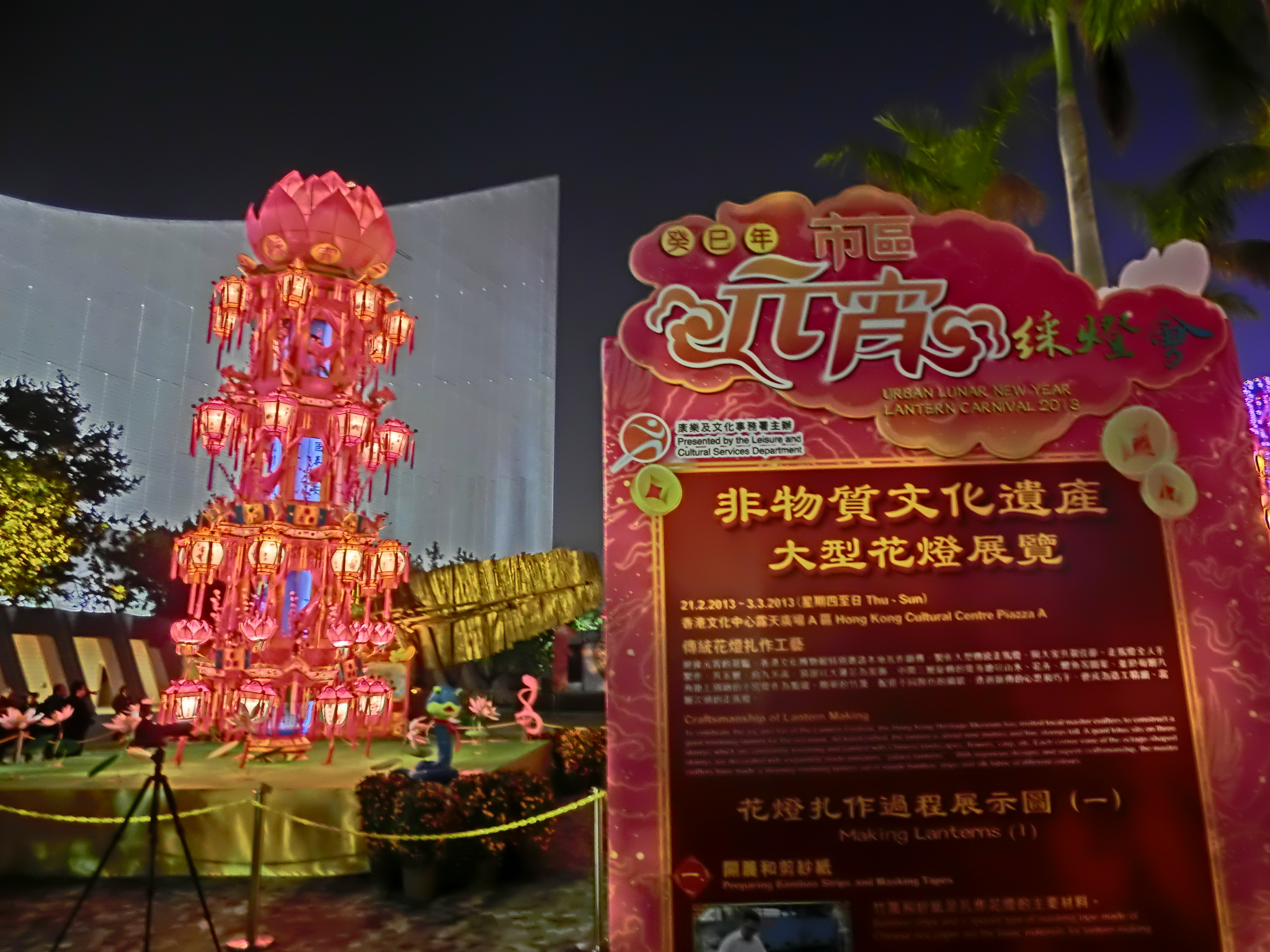 Night in Tsim Sha Tsui, Hong Kong